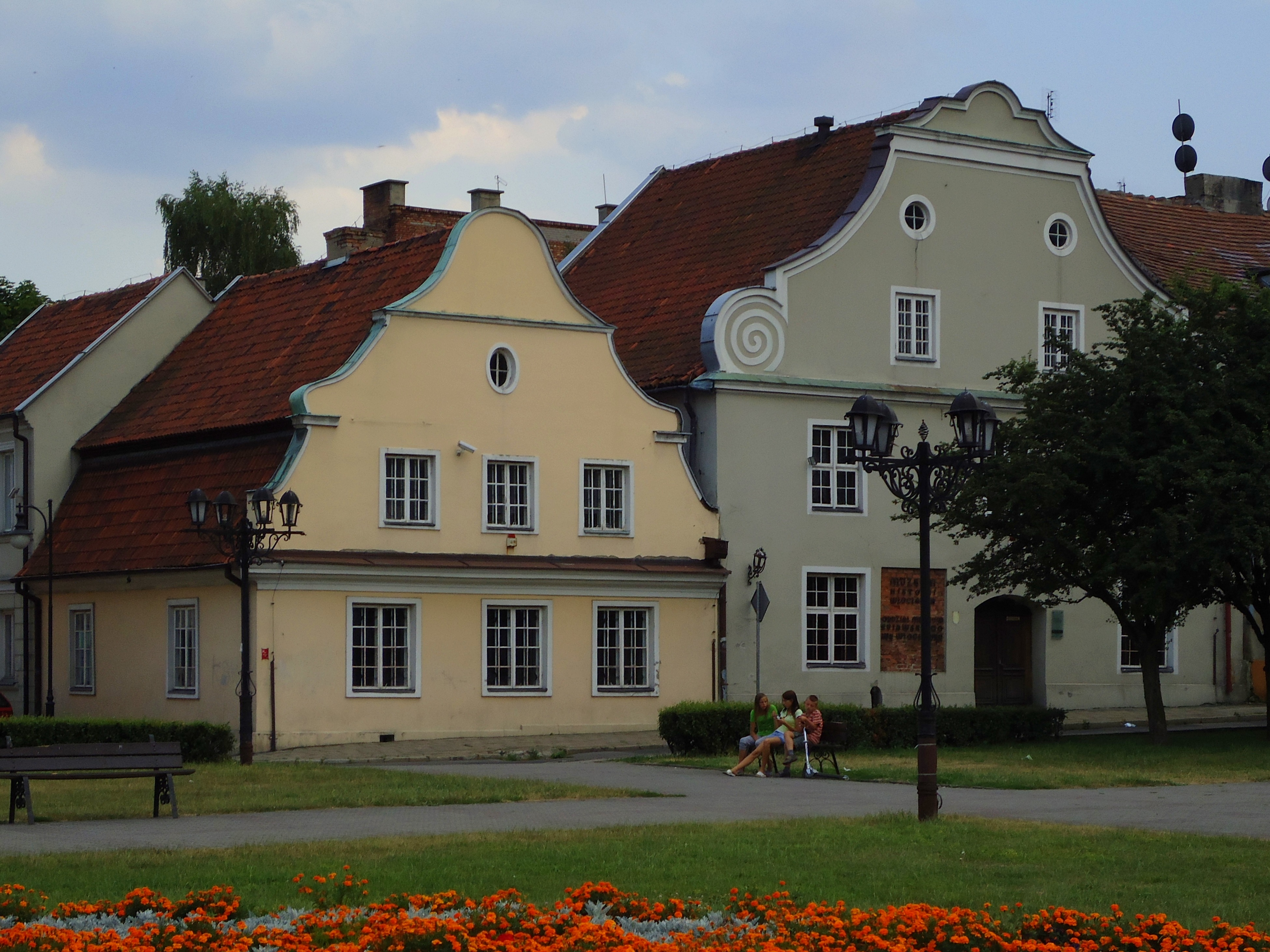 Old Square, Włocławek, old tenements